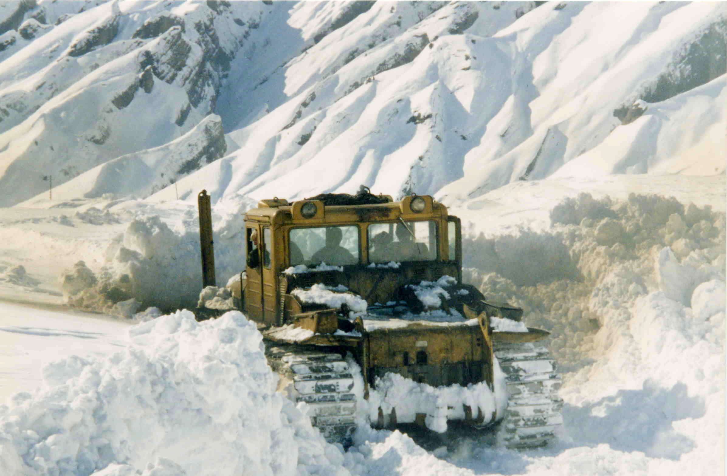 A DET-250 bulldozer removes snow in Tajikistan in 1998.